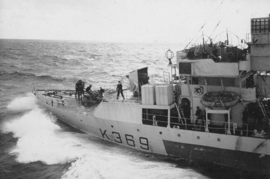 Transfer between HMCS West Yorkk (K369) and HMCS Fergus. The QF 4-inch Mk XIX gun on West York's bow is seen.